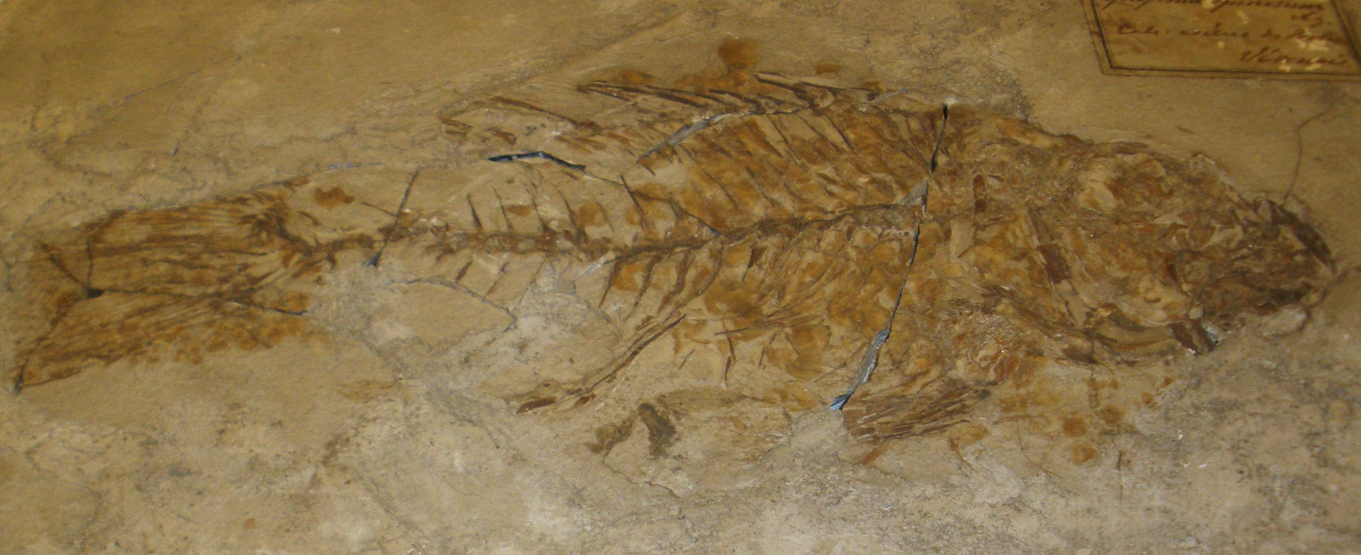 Fossil of Cyclopoma spinosum, an extinct fish